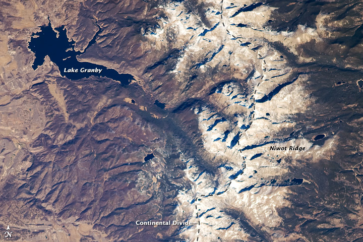 Great Divide, Rocky Mountains, Colorado This astronaut photograph highlights a portion of the Great Divide in the Rocky Mountains approximately 31 kilometers due west of Boulder, Colorado.